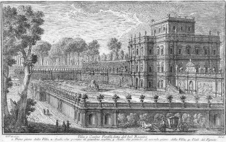 Villa e Casino Pamphilj, etching by Giuseppe Vasi, around 1740s